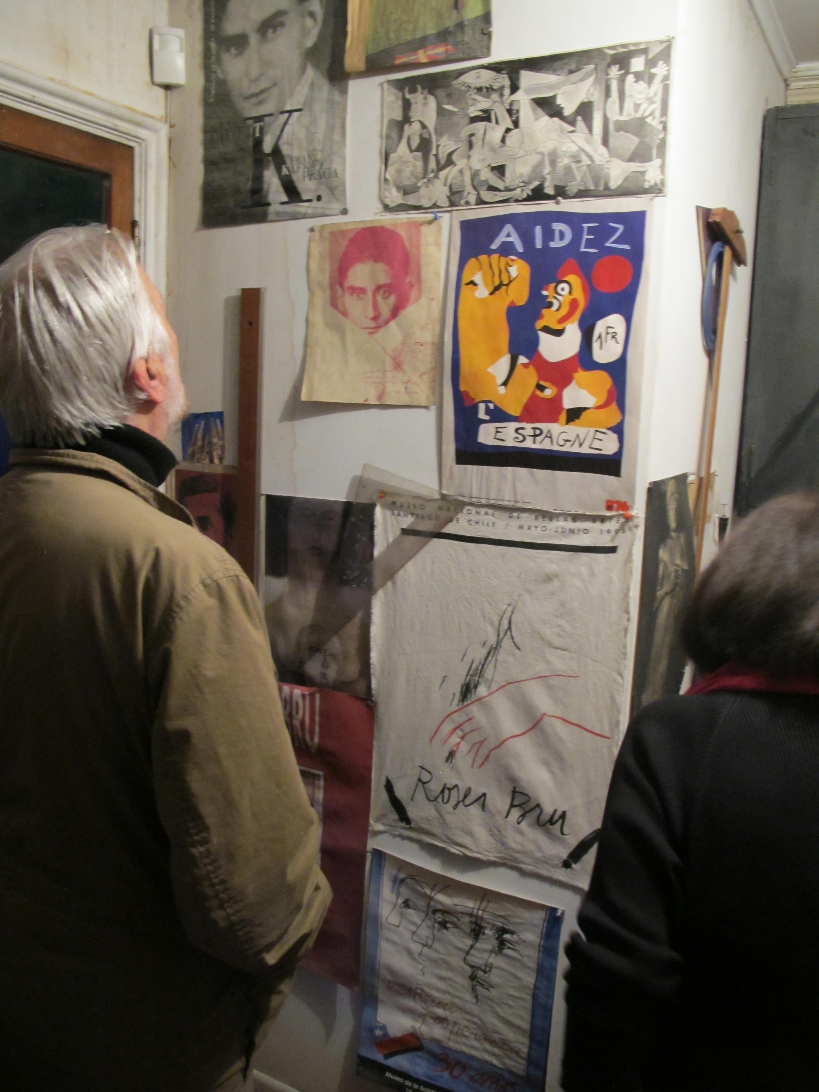 Javier de Villota with Roser Bru (Barcelona 1923) at his studio in Santiago during 2013